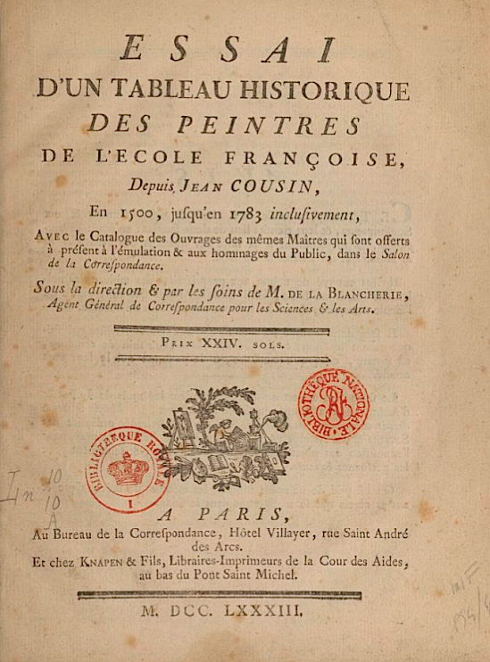 Cover of Essai d'un tableau historique des peintres de l'école française depuis Jean Cousin en 1500 jusqu'en 1783 inclusivement, avec le catalogue des ouvrages des mêmes maîtres, published in Paris by Bureau de la Correspondance.